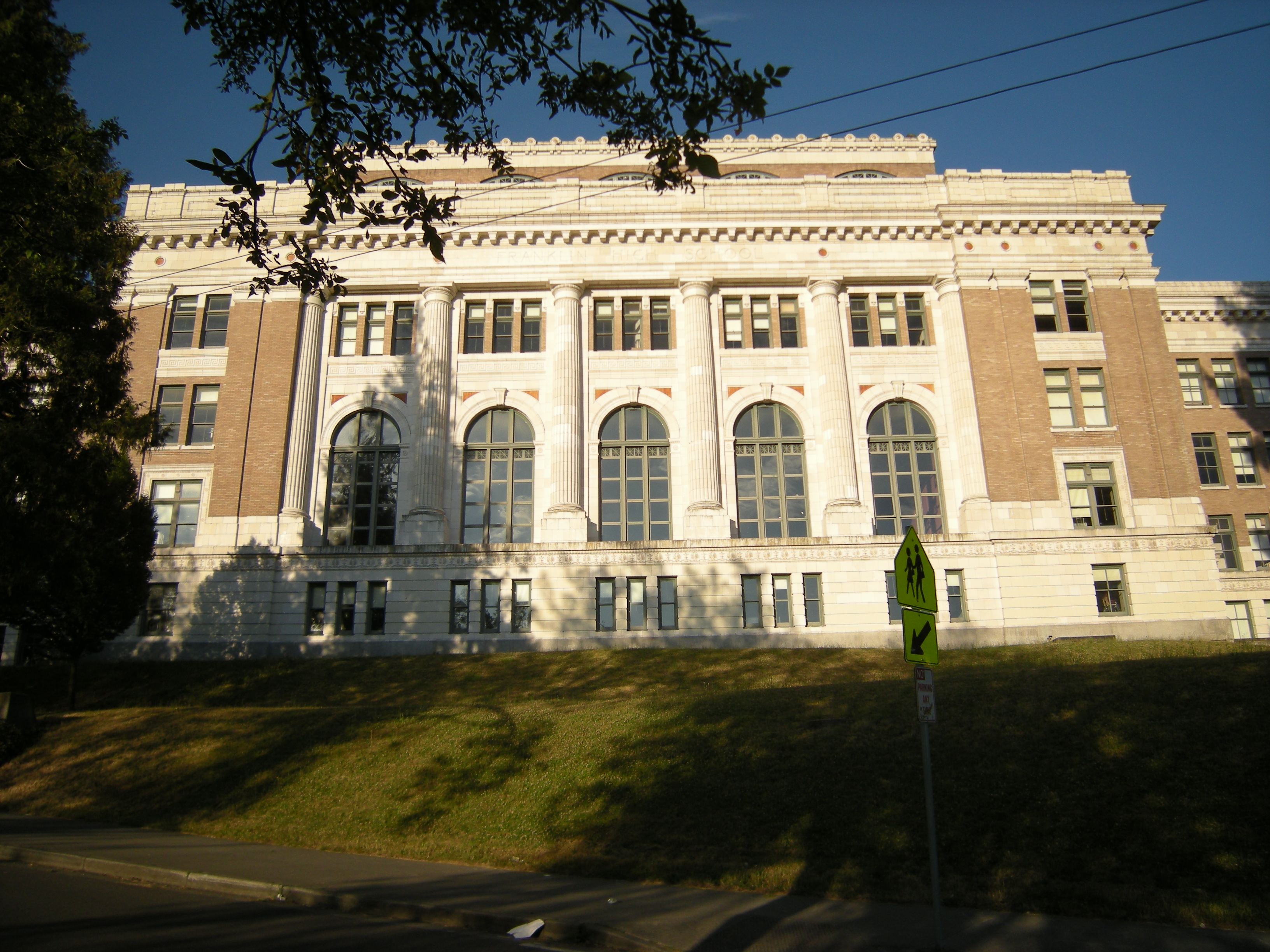 Franklin High School, Mt. Baker neighborhood, Seattle, Washington.